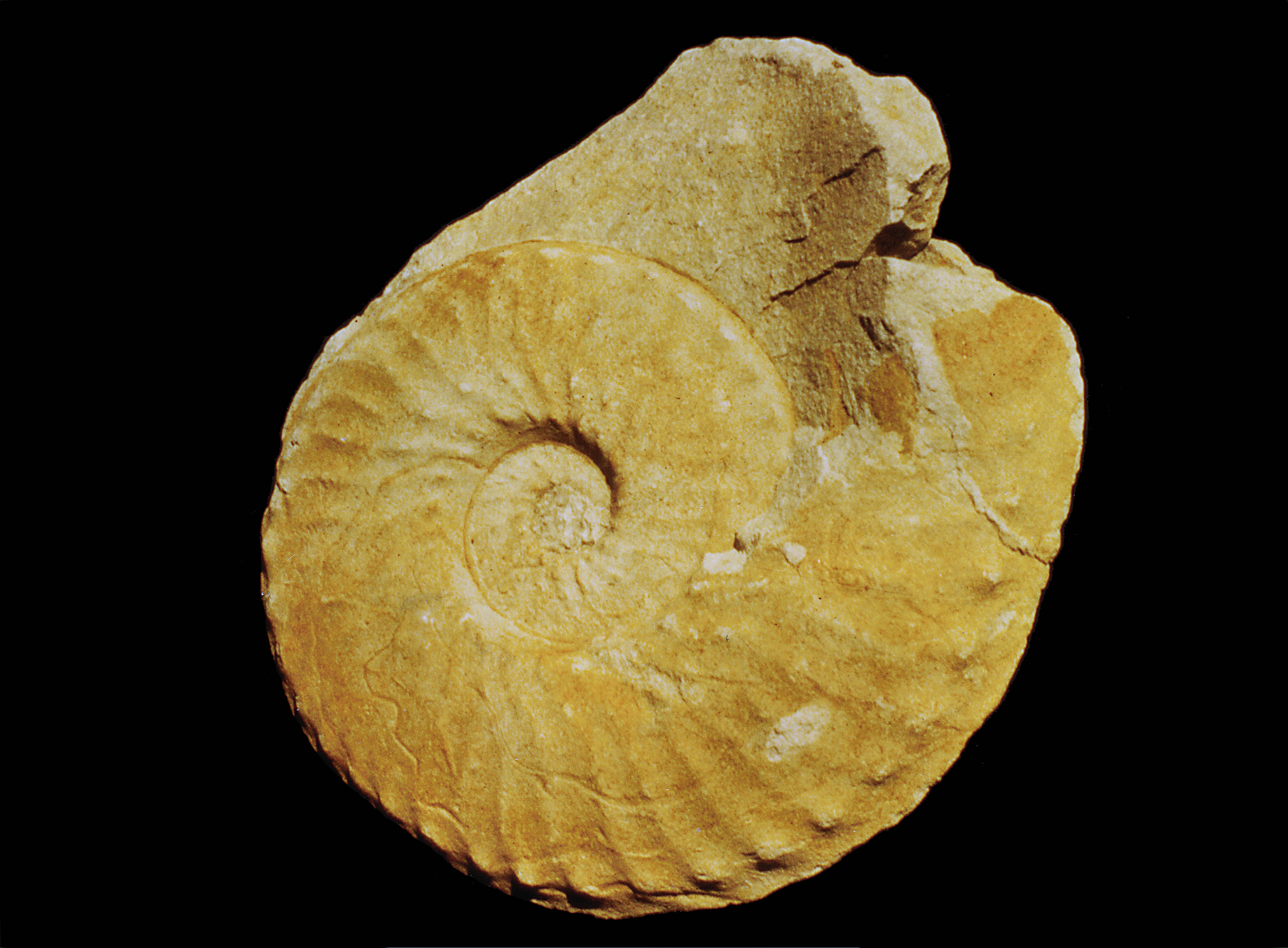 Ammonite of the Lower Cenomanian (Cretaceous, about 100 million years ago) at Atherfield Point, Isle of Wight, UK